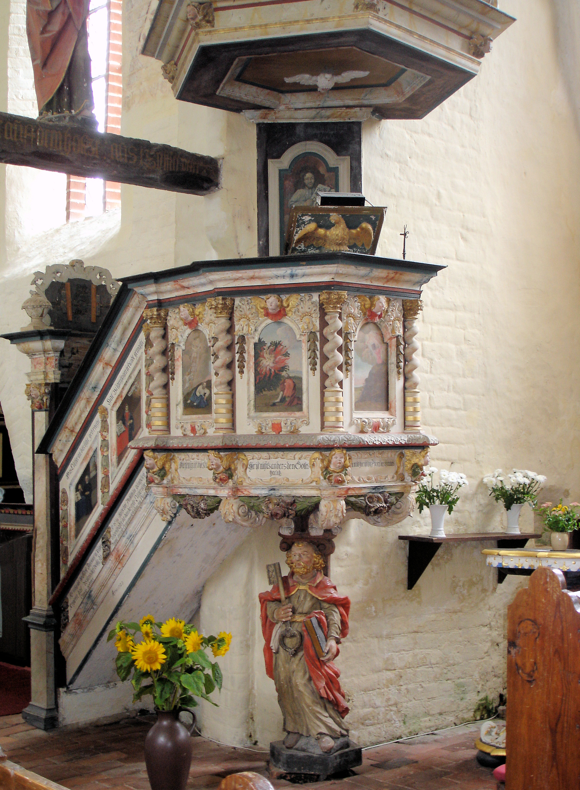 Pulpit - Church St. Johannis of Schaprode at Rügen island, Germany